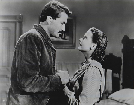 Promotional photo of Gregory Peck and Helen Westcott in the American western film he Gunfighter (1950).